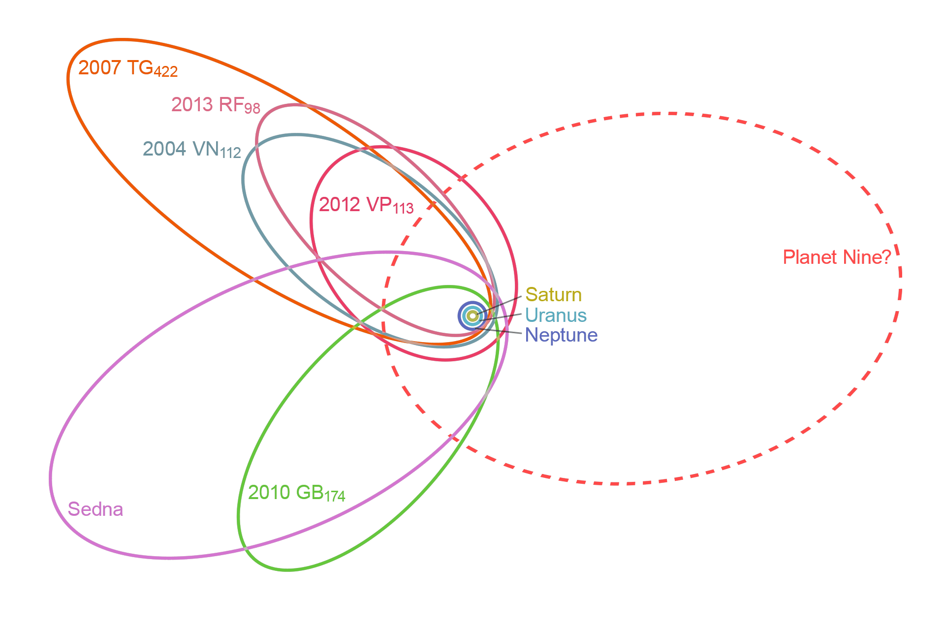 The unusually closely spaced orbits of six of the most distant objects in the Kuiper Belt indicate the existence of a ninth planet whose gravity affects these movements.